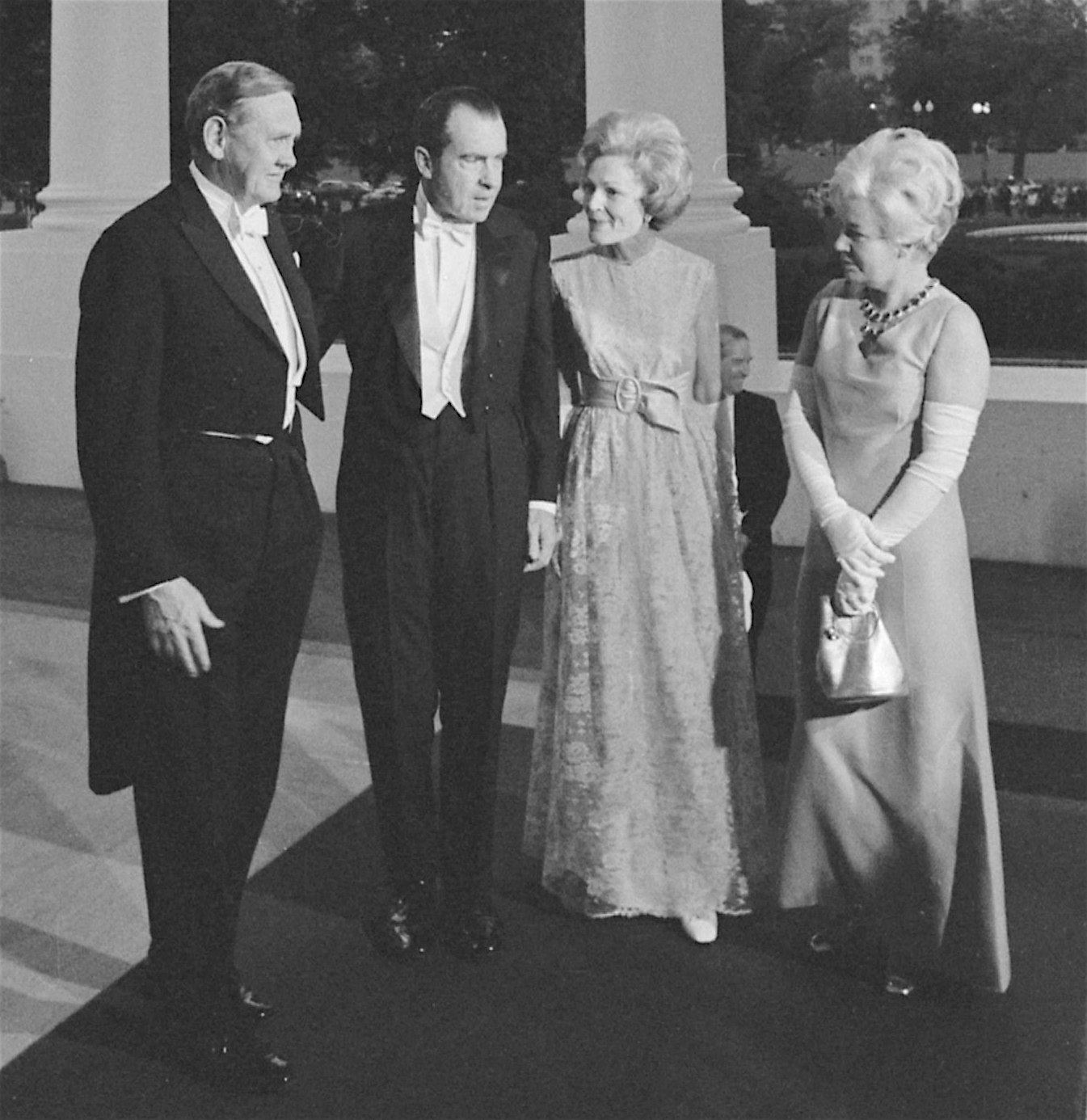 President Richard Nixon and his wife Pat welcome Prime Minister John Gorton and his wife Bettina to the White House